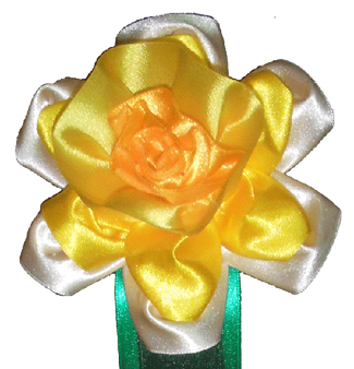 Daffodil flower rosettes use satin ribbons which is actually 100% nylon in a cut edge and woven edge finish. Delicate craftsmanship seals this rosette with glue and folded ribbons to create the daffodil flower effect, where coloured ribbons play an important part of the finish. The user RosettesSpain recommends these are used as gifts or awards as they can be printed on the tails with a personalised message. The secret to a quality daffodil rosette is the craftsmanship of the artisan, if they are glue experts or not and which level of quality ribbons they use, as there are many, some with more shine than others. Date of photo April 1st 2012 in the workshop of Rosettes Spain ~ Escarapelas España, Alhaurin el Grande, Malaga, Spain. Photo taken with a Fuji FinePix Z300 Digital Camera 10MP Touch Screen. Photo by Rosettes Spain ~ Escarapelas España by the user:RosettesSpain in Wikipedia, Facebook, Twitter, Youtube and Goggle+